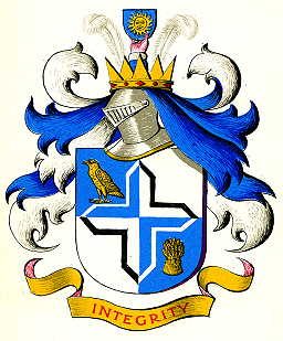 The coat of arms of Dukinfield Municipal Borough Council, the former (1899-1974) local authority of Dukinfield—then in Cheshire, now Greater Manchester—England. The armoural description is as follows: ARMS: Quarterly Azure and Argent a Cross pointed and voided quarterly of the last and Sable between in the first quarter a Raven close proper and the fourth a Garb both Or. CREST: Out of a Crown palisado Or a cubit Arm vested Azure cuff Argent hand proper holding an Escutcheon of the second charged with a Sun in splendour of the first between two Ostrich Feathers of the third. Motto: INTEGRITY. Granted: 24 March 1900.